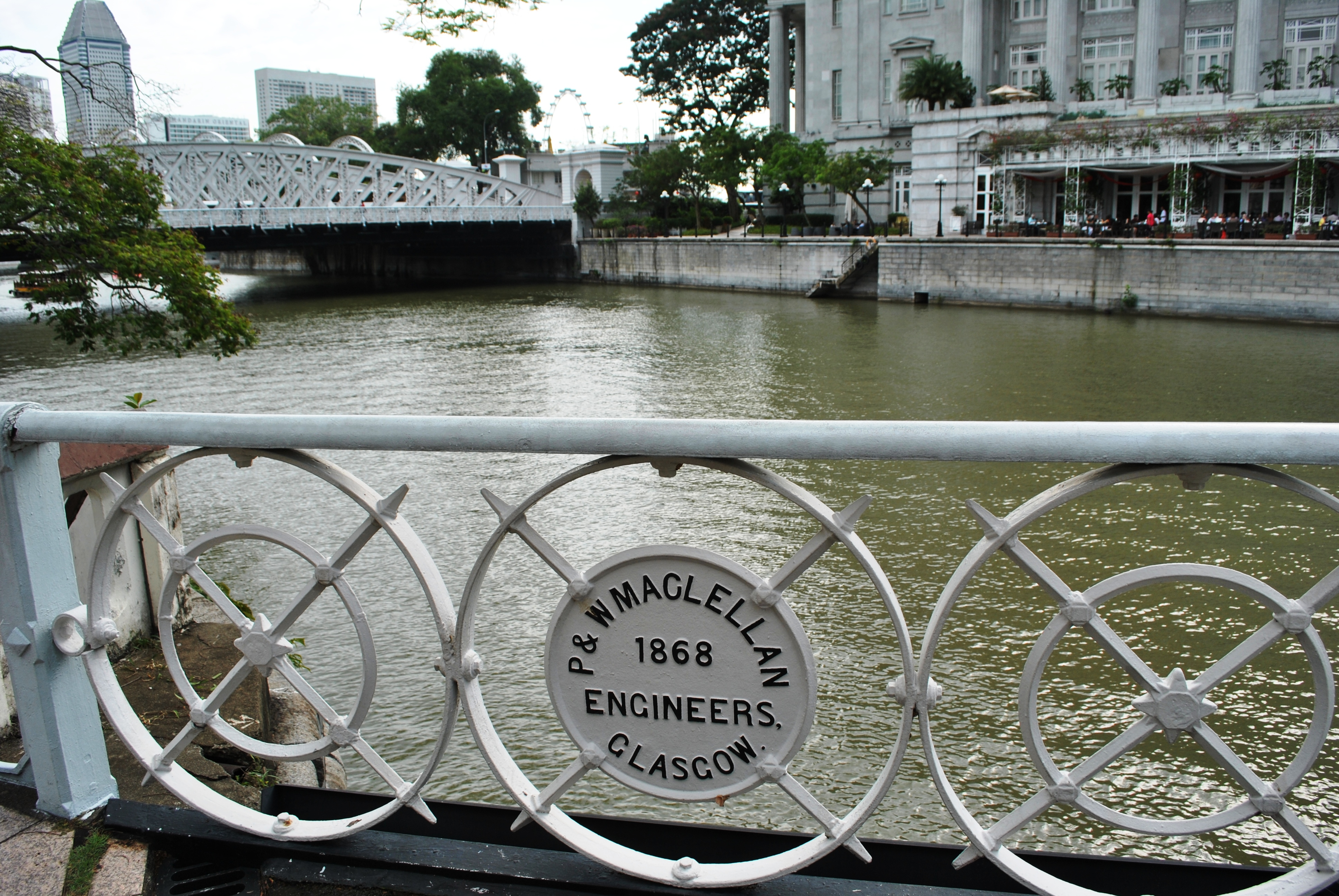 Cavenagh Bridge